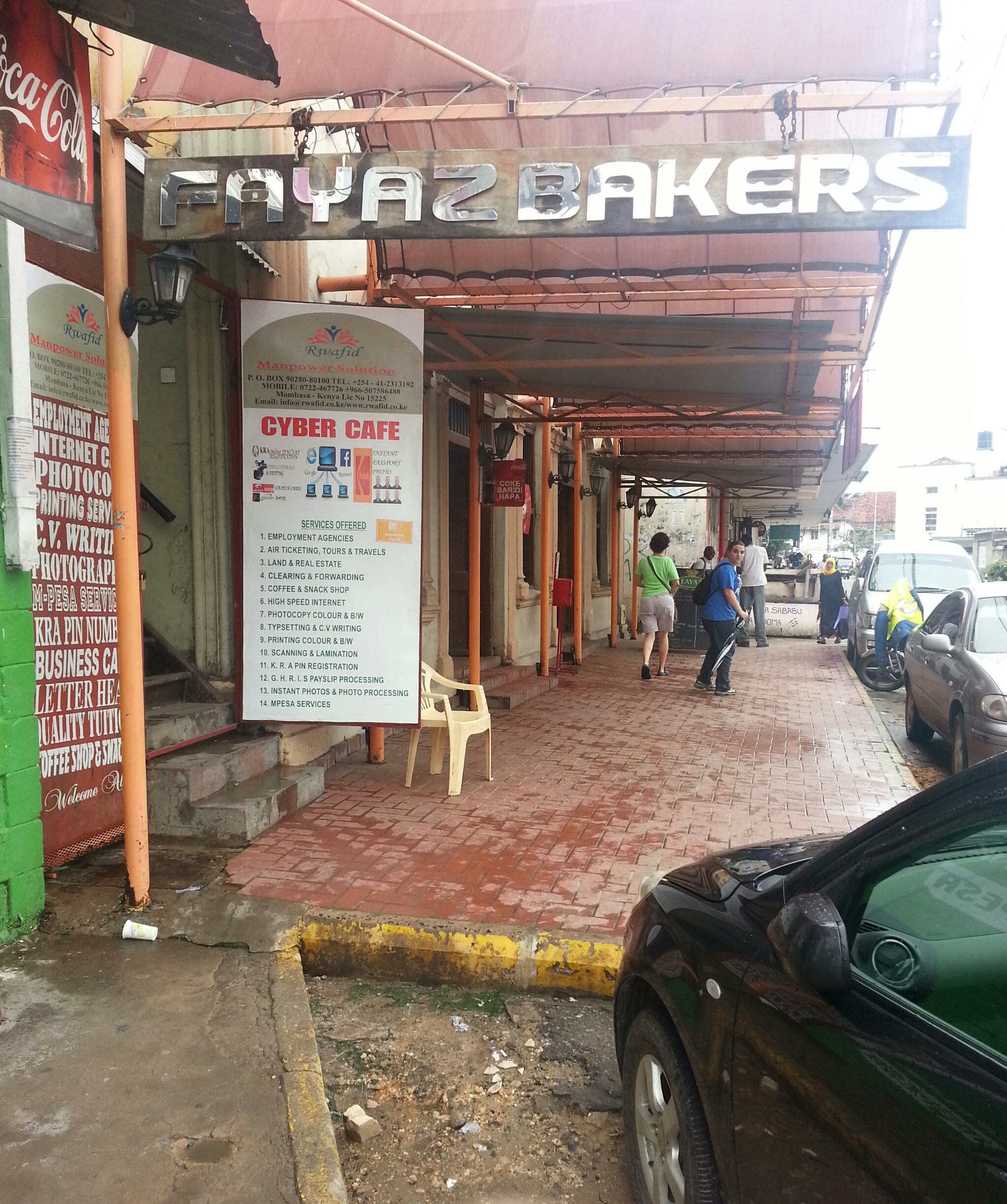 An internet cafe in Mombasa. The cafe is combined with a photo repair service, a travel agency, a bakery, and others.